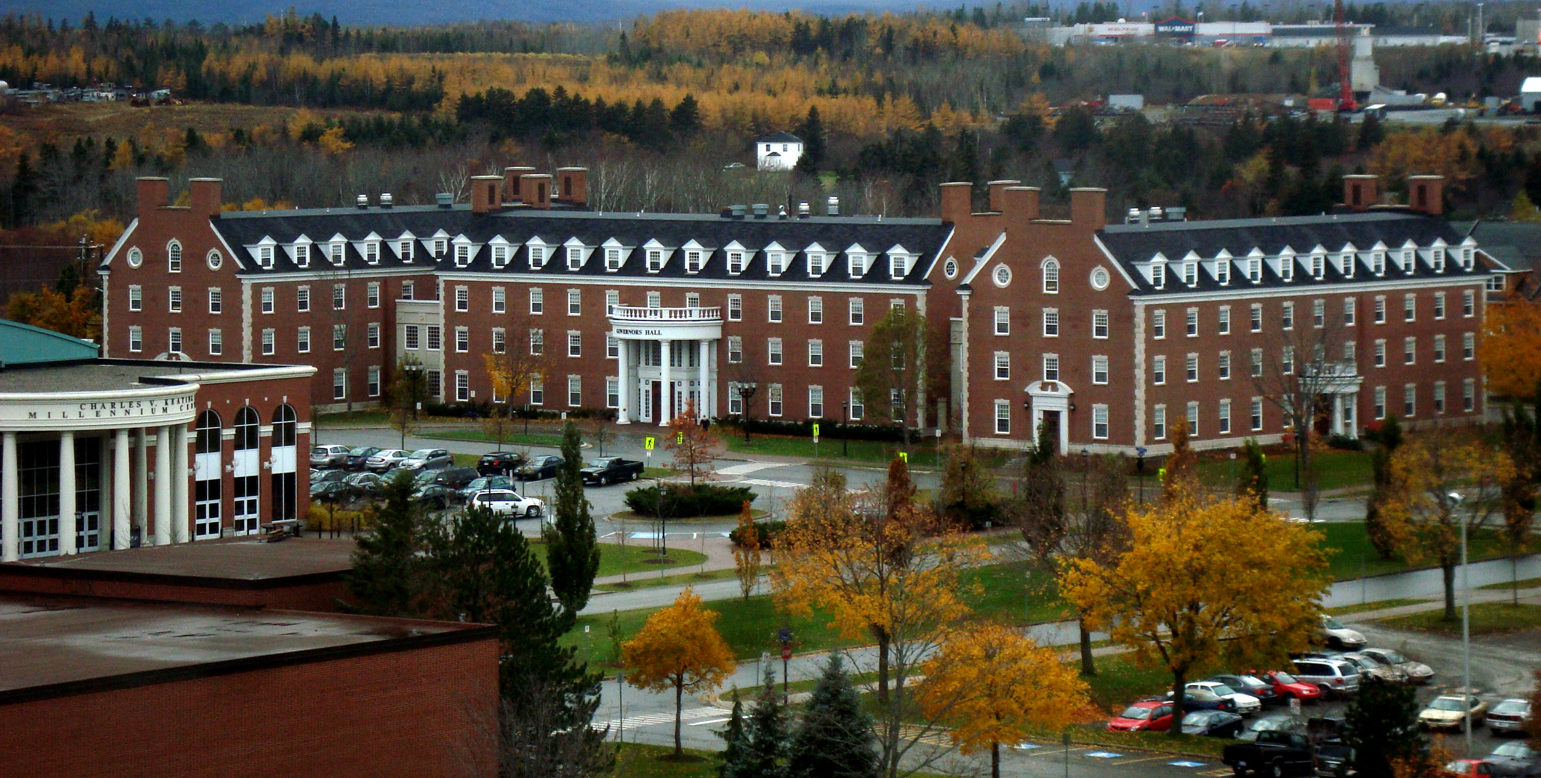 Governor's Hall Residence at St. Francis Xavier University